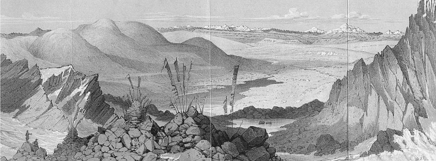 Tibet and Cholamoo Lake from the summit of the Donkia Pass, looking North West.